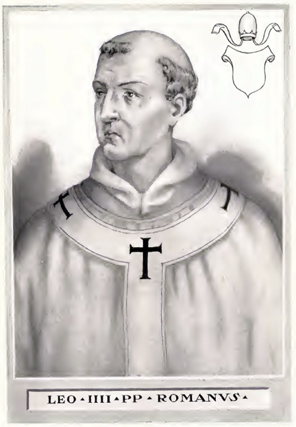 This illustration is from The Lives and Times of the Popes by Chevalier Artaud de Montor, New York: The Catholic Publication Society of America, 1911. It was originally published in 1842.